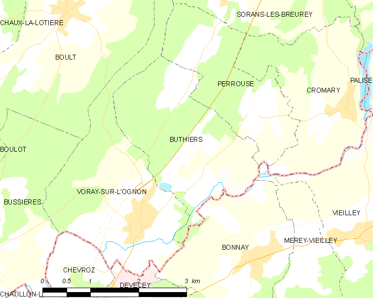 Map of French municipality